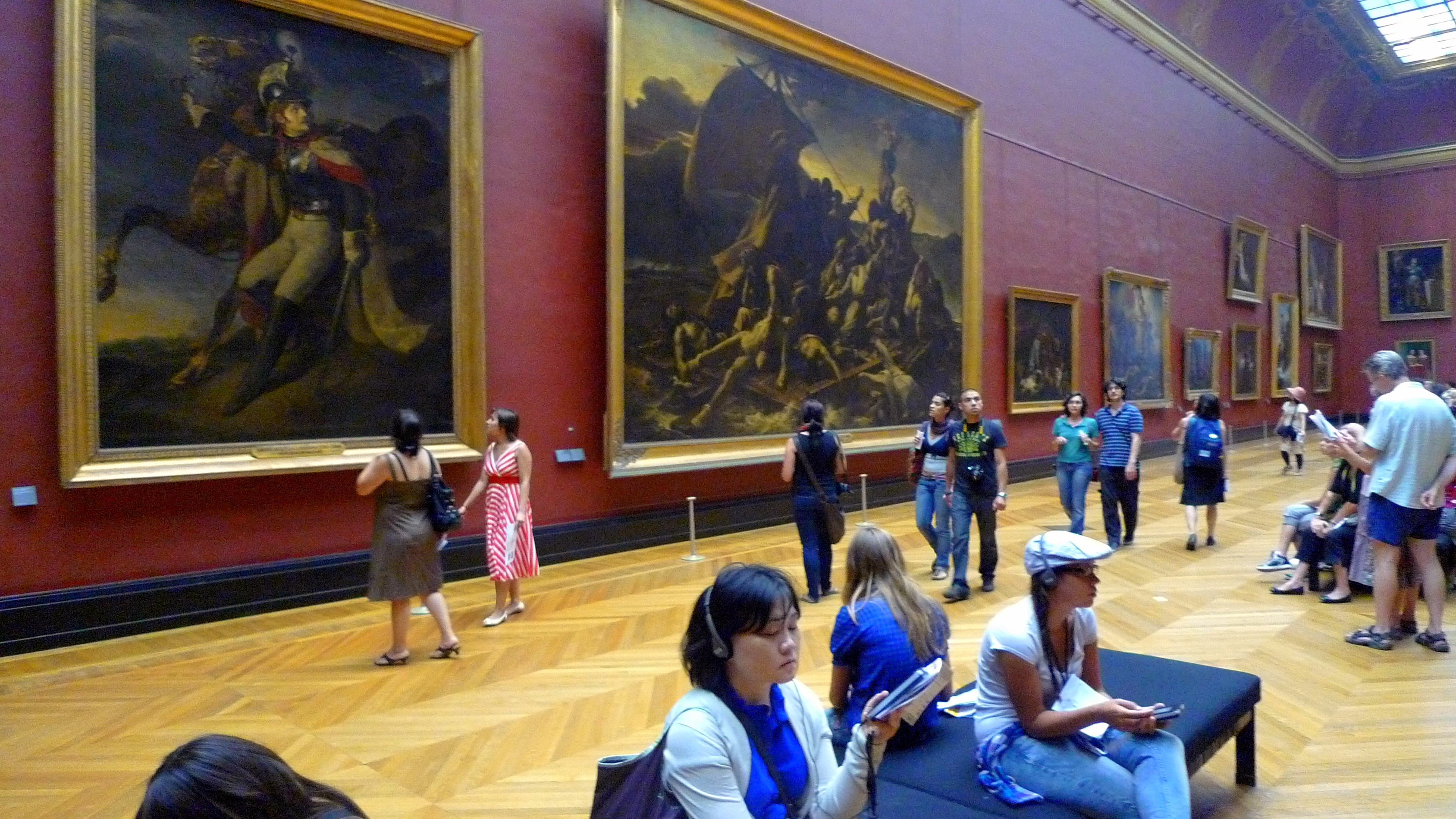 The Raft of the Medusa